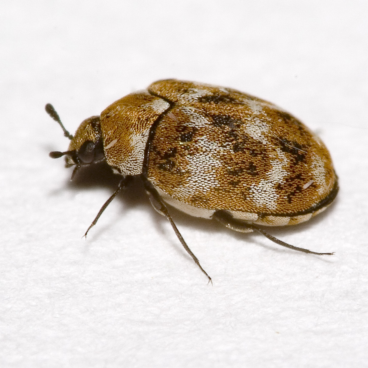 variegated carpet beetle, Anthrenus verbasci